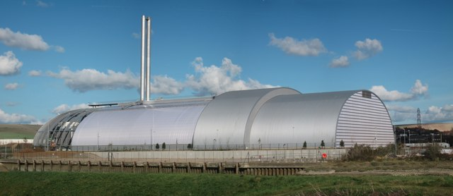 Newhaven Incinerator, Data from Geograph: Description: Seen across the River Ouse, the recently complete incinerator is currently being tested before it starts burning over 200,000 tonnes of solid waste per year. ICBM: 50.800730564076, 0.048618236766395 Location: (about 1 km from) near to South Heighton, East Sussex, Great Britain.